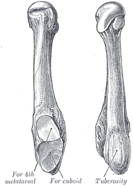 FIG. 288– The fifth metatarsal. (Left.)